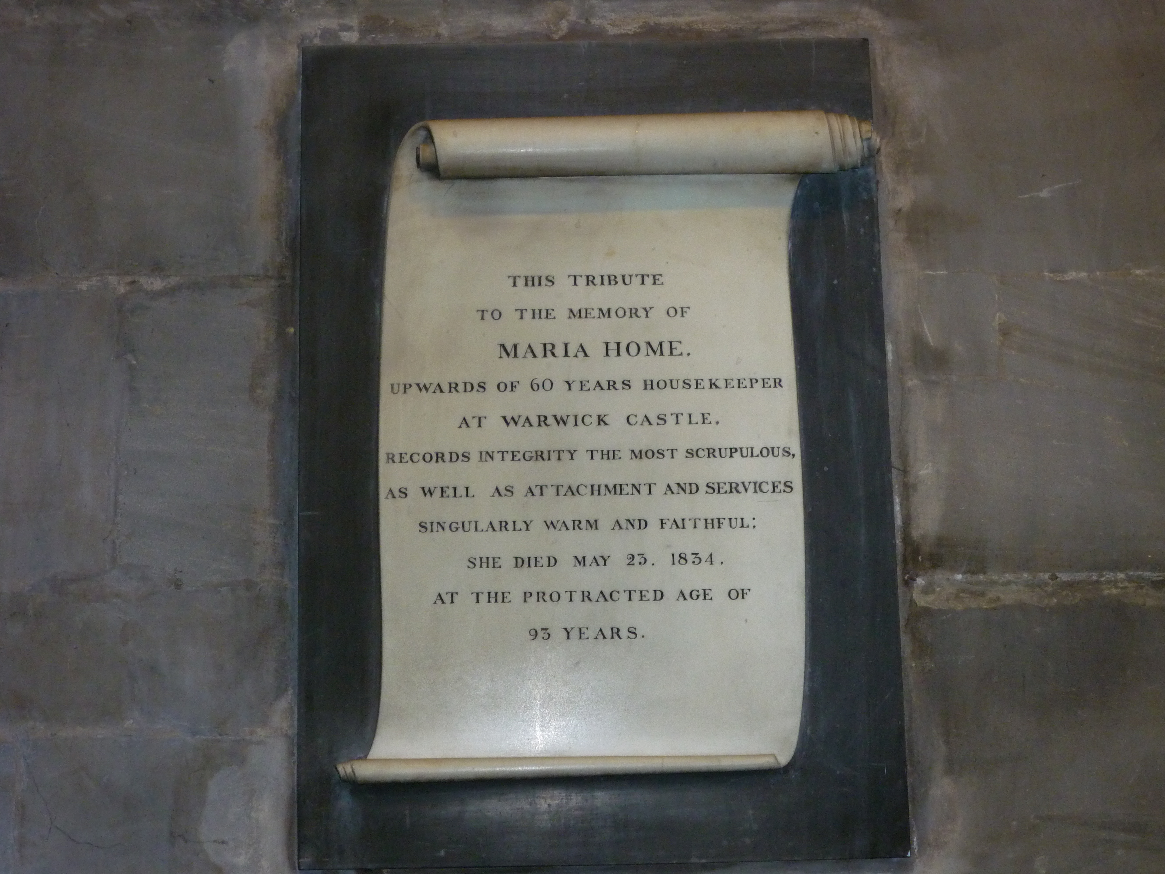 Memorial to Maria Home (1834) in the Collegiate Church of St Mary, Warwick, UK